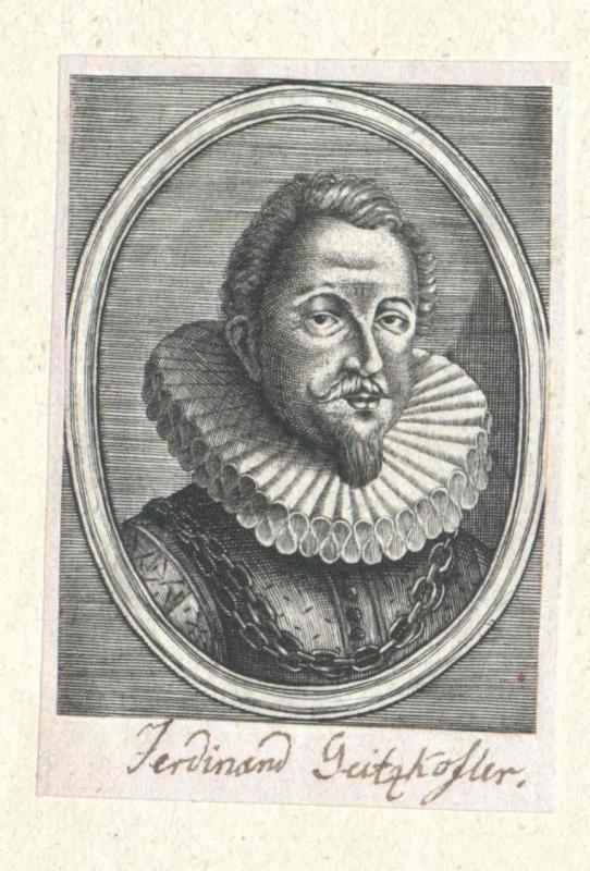 Ferdinand Geizkofler (1592-1653)